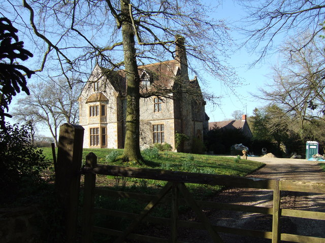 Pugin's Hall Rampisham On the western fringes of the village is this Gothic Grade I listed building designed by the famous Victorian architect Augustus Pugin (1812–1852). Formerly known as Glebe Farm, it was built for the Reverend F. J. Rooke and his family between 1845 and 1846. He was rector at Rampisham from 1845 until his death in 1894.